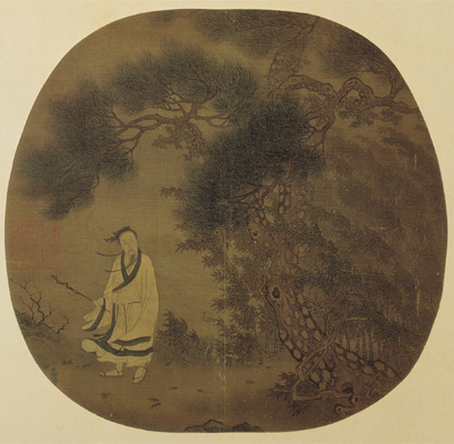 Holding a Wand under the Pine Tree, Xu Daoning, Song Dynasty, China, National Palace Museum, Taipei